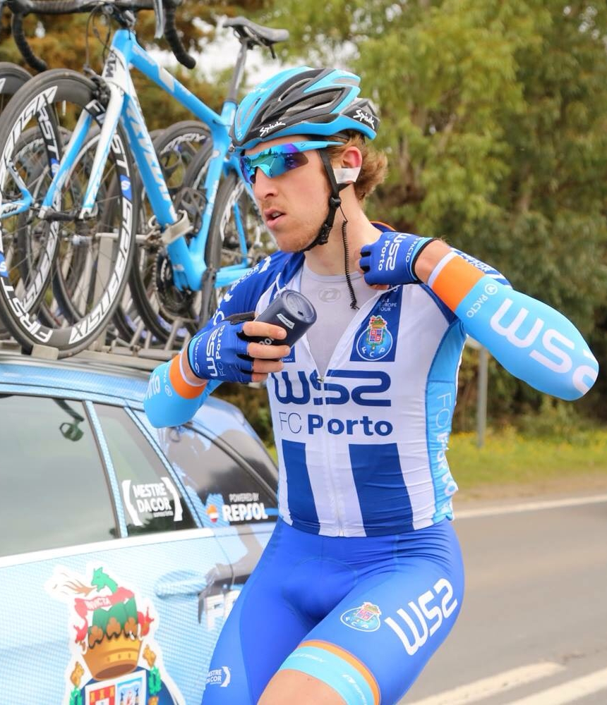 Jacobo Ucha en la Volta ao ALgarve